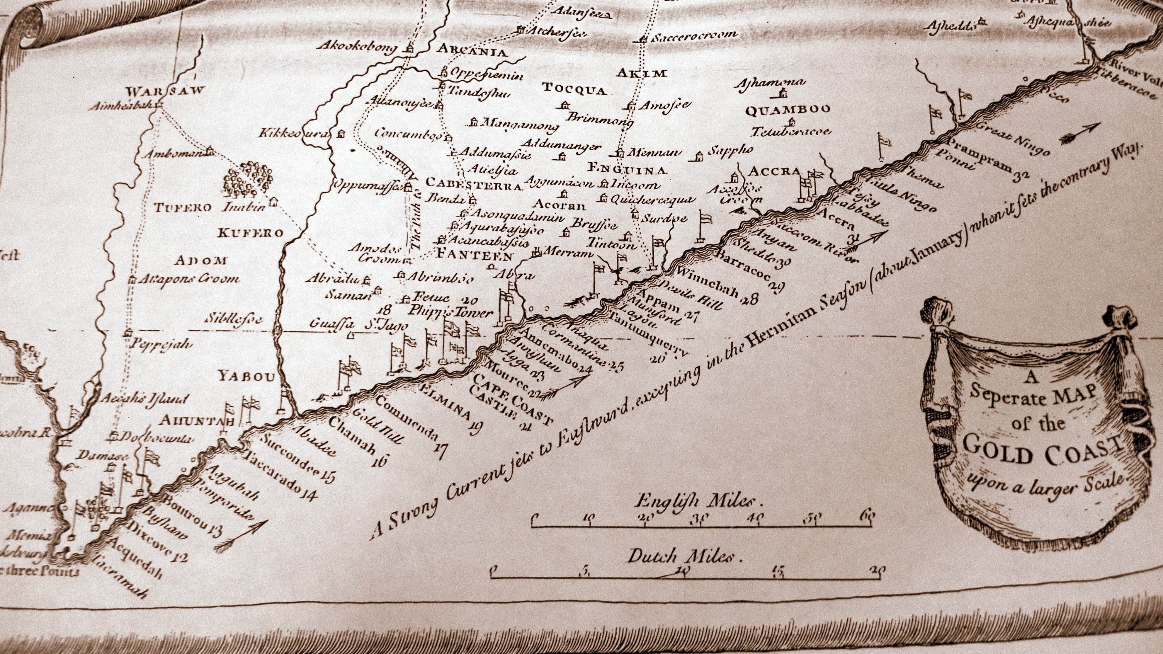 Gold Coast in 1774 from Cape Three Points to River Volta which was included in the 4th edition of Malachi Postlethwait's 'Universal Dictionary of Trade and Commerce""